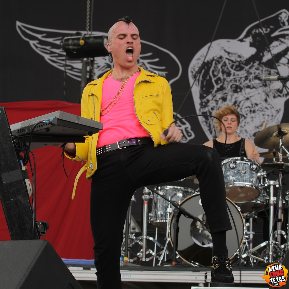 Neon Trees @ EDGEfest 21 in Frisco, Texas (Pizza Hut Park) Neon Trees is an American alternative rock band from Provo, Utah with origins in Murrieta, California. The band received nationwide exposure in late 2008 when they opened several North American tour dates for the rock band The Killers. Not long after, the band was signed by Mercury Records and released their first full length album, Habits, in 2010. Their first single "Animal" has climbed to #13 on the Billboard Hot 100 and #1 on the Alternative Rock Chart. Current Lineup: Tyler Glenn, Chris Allen, Branden Campbell, Elaine Bradley All trademarks are the property of their respective owners. All photos provided with a creative commons share-alike license. Use freely for commercial or non-profit use but give attribution to "giovanni gallucci" and link to - You are responsible for securing any other rights required to reproduce these images for your own use. Live.Loud.Texas on twitter: Live.Loud.Texas on facebook: The full set of these pics can be found at (cc) 1996 - 2011 giovanni gallucci